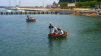 Taraibune. Taraibune, Sado Island.